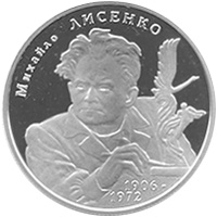 Coin of Ukraine